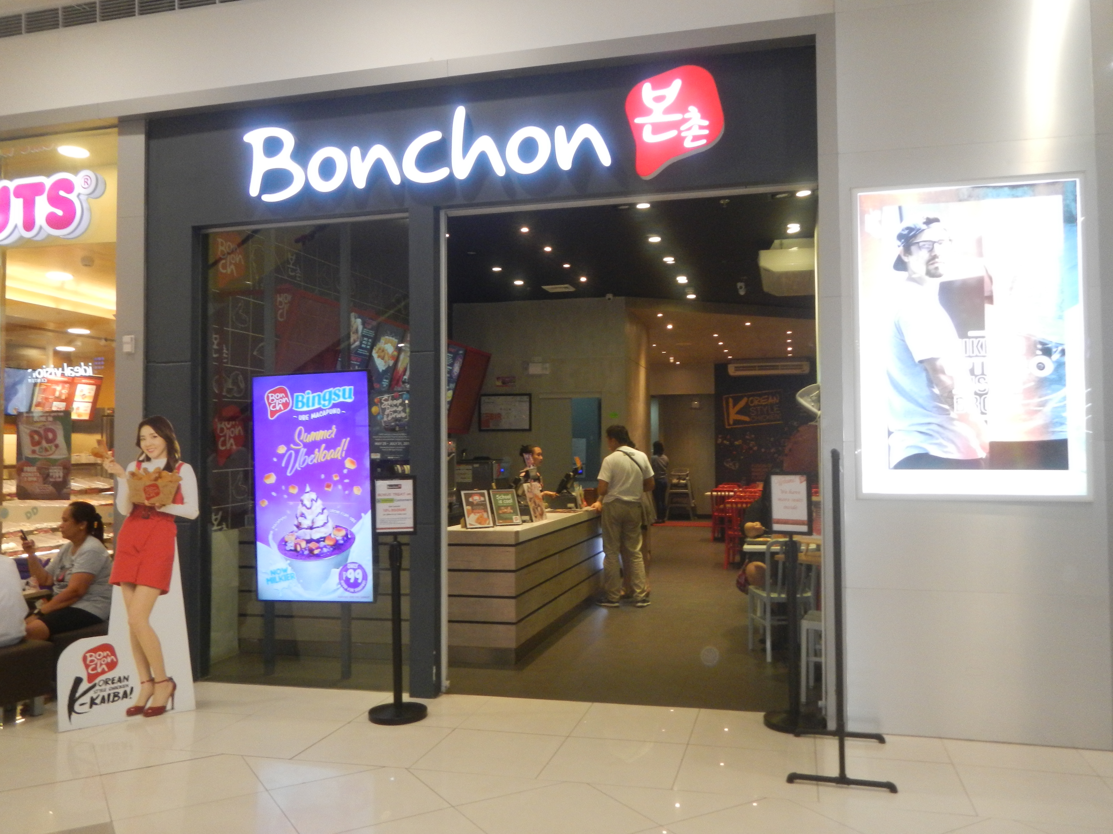 Bacolod Chicken Inasal restaurants in the Philippines, Bonchon Chicken (Restaurants) in the Philippines, Folded & Hung, Jockey International Jockey Philippines, Ideal Vision Center, Dickies (clothing brand) (Note: Judge Florentino Floro, the owner, to repeat, Donor Florentino Floro of all these photos hereby donate gratuitously, freely and unconditionally all these photos to and for Wikimedia Commons, exclusively, for public use of the public domain, and again without any condition whatsoever).